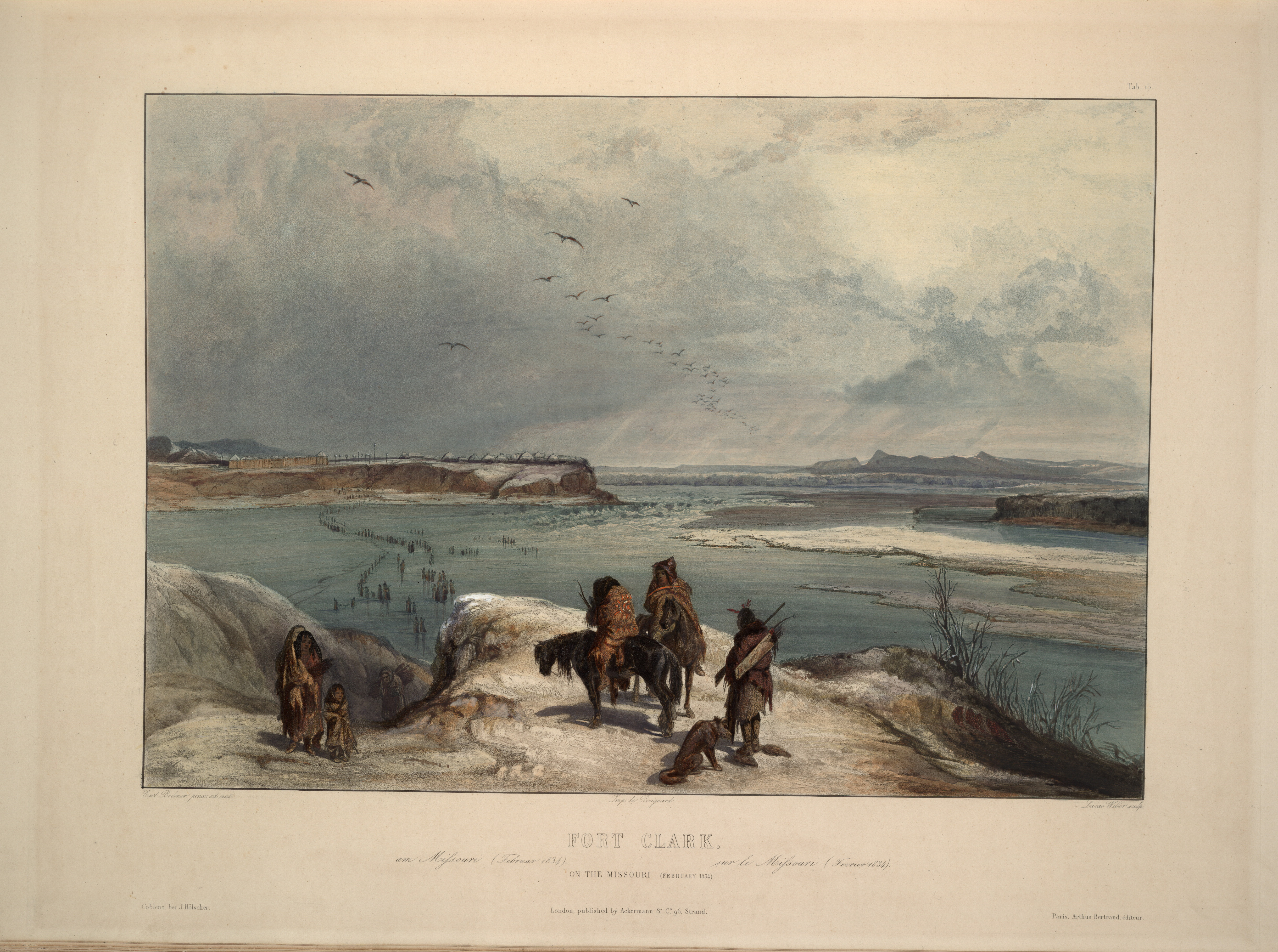 Fort Clack on the Missouri february 1834